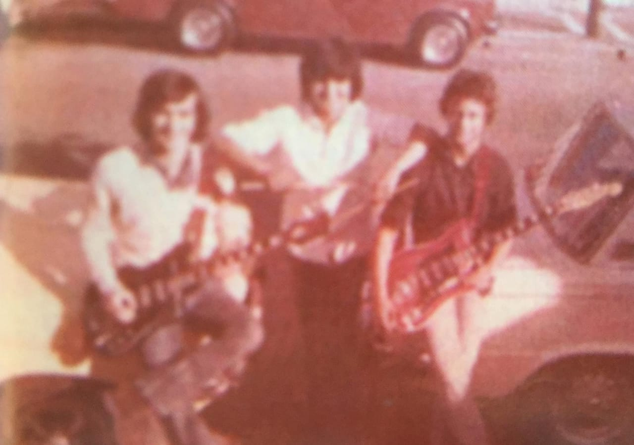 Cristal in 1976